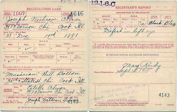 This is really Peter Hanley's research, I adapted this from his work on I like the way I arranged the two sides of the draftcard into one image. The reason I'm adding it to Wikimedia is because according to this card, the wikipedia page on King Oliver had his birthdate wrong (shows both 12/19/1885 and 5/11/1885 in different parts of page). I'm going to include this image on the King Oliver wiki. It is also an important document because his wife Stella Oliver remembered him (in an interview) coming to Chicago in May 1919, when this document proves Oliver was already in Chicago in September 1918 and working on State Street as a musician.